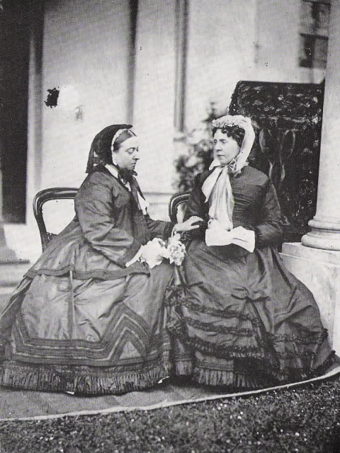 Queen Victoria and Empress Augusta